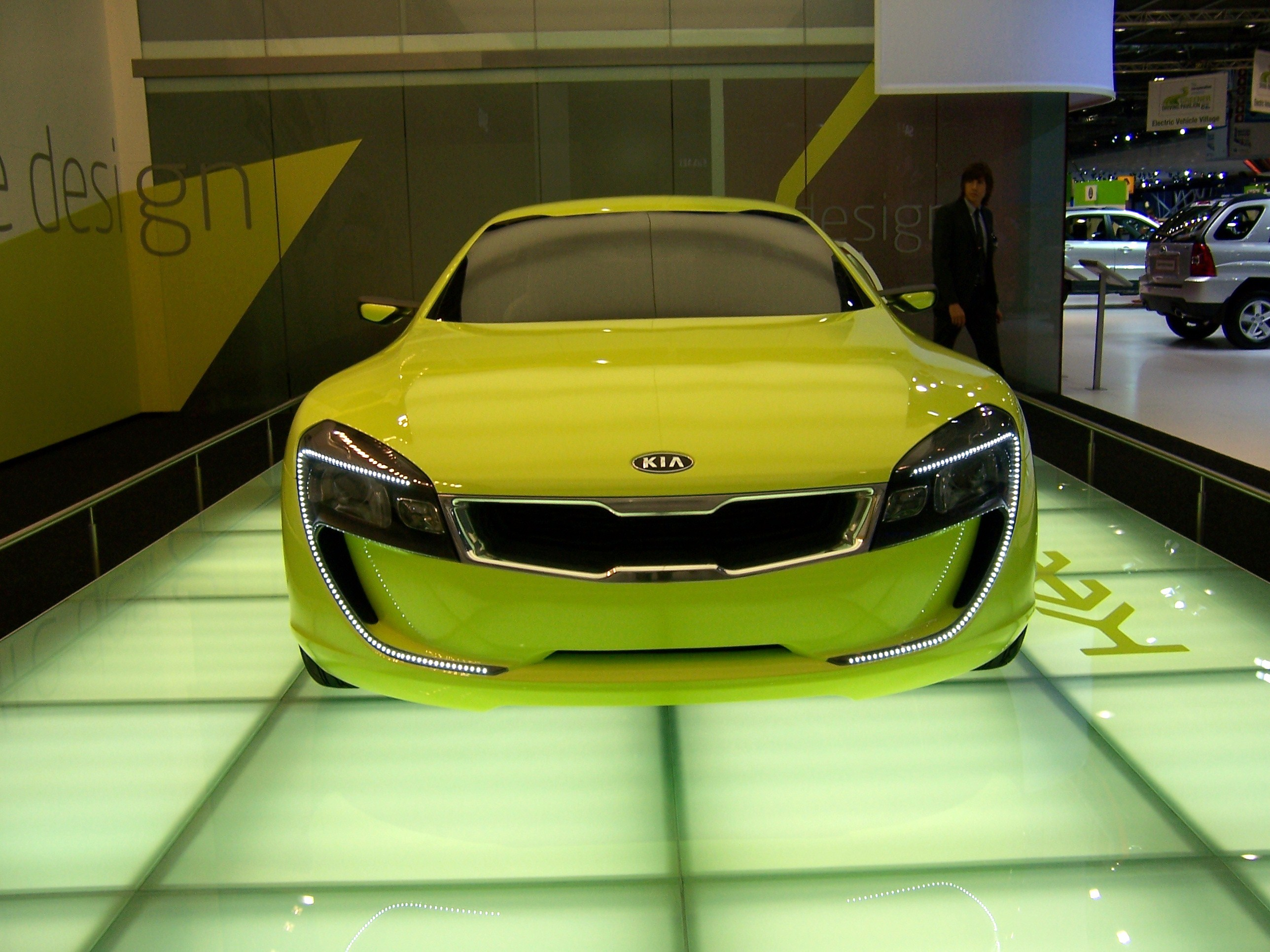 Kia Kee Design Concept